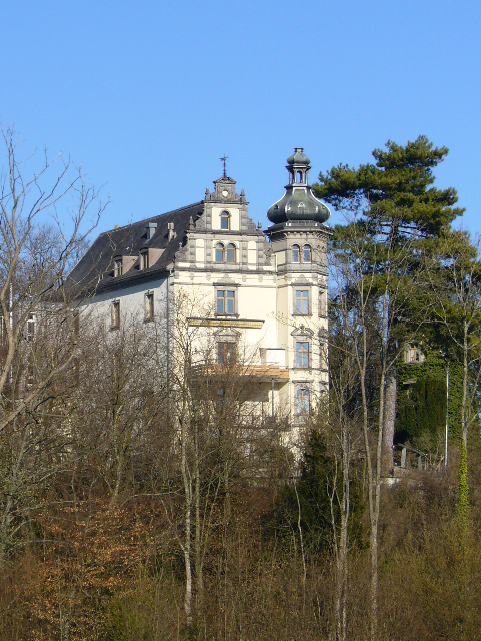 Schloss Steinegg in the village Hüttwilen, canton Thurgau, Switzerland. Picture taken by Peter Berger. April 6, 2007.